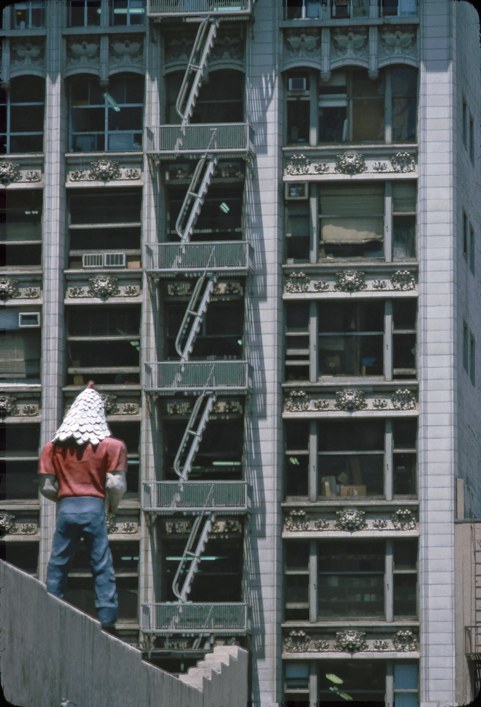 Fiberglass sculpture (Chicken Boy) at its original location downtown LA (digitized from a Kodachrome paper frame slide)